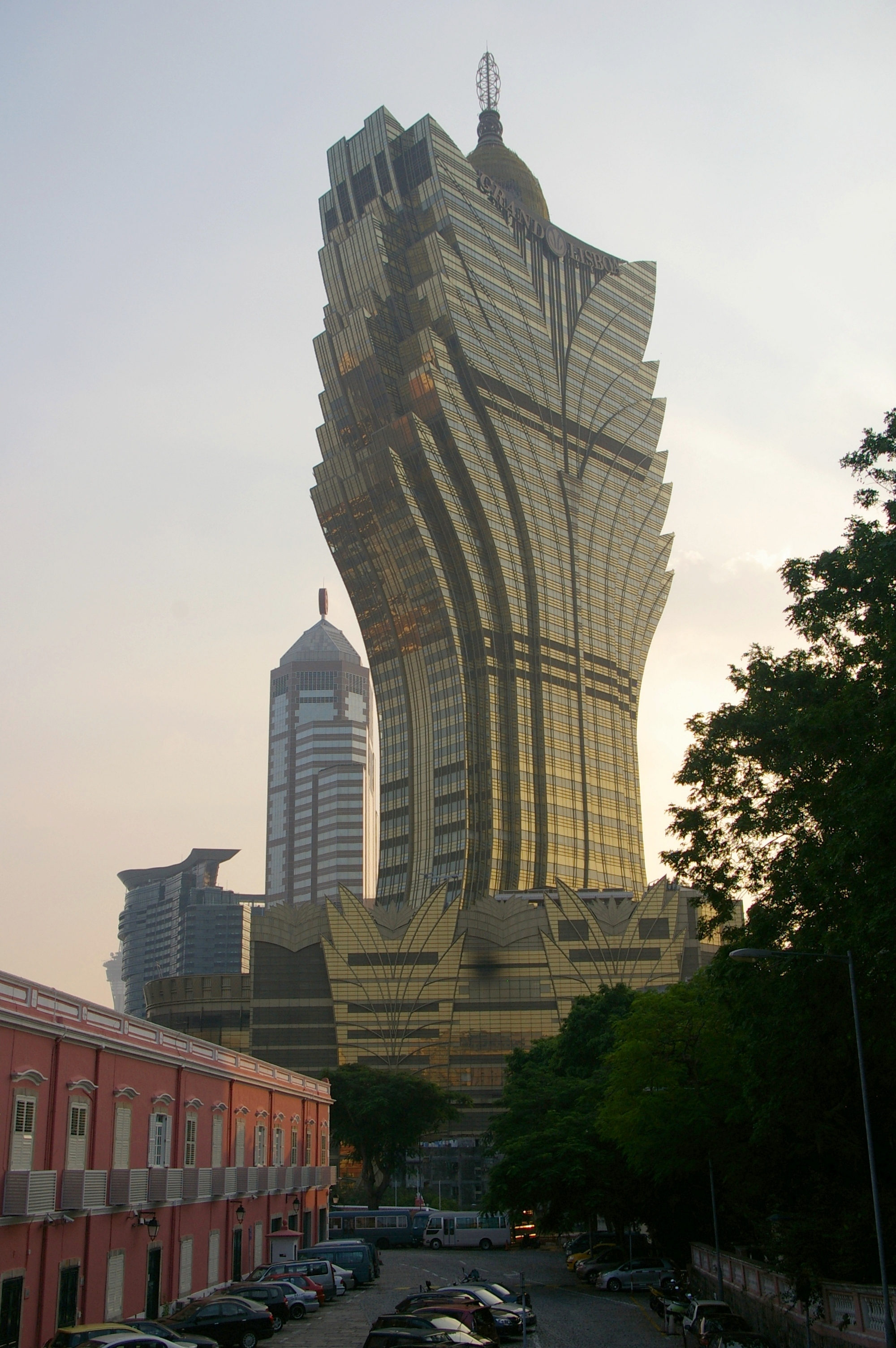 Grand Lisboa skyscraper in Macau